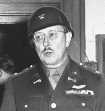 Colonel Burton C. Andrus in Nürnberg circa 1945-1946.